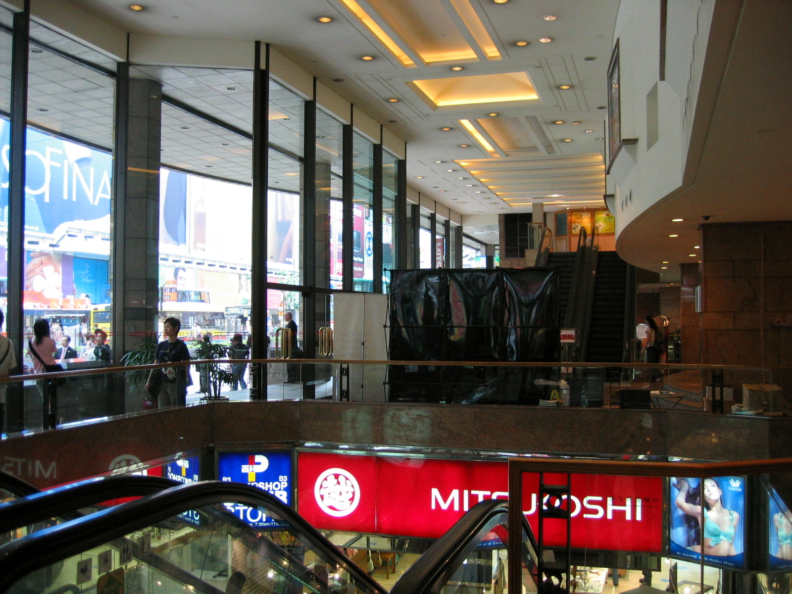 HK Hennessy Centre Interior 興利中心